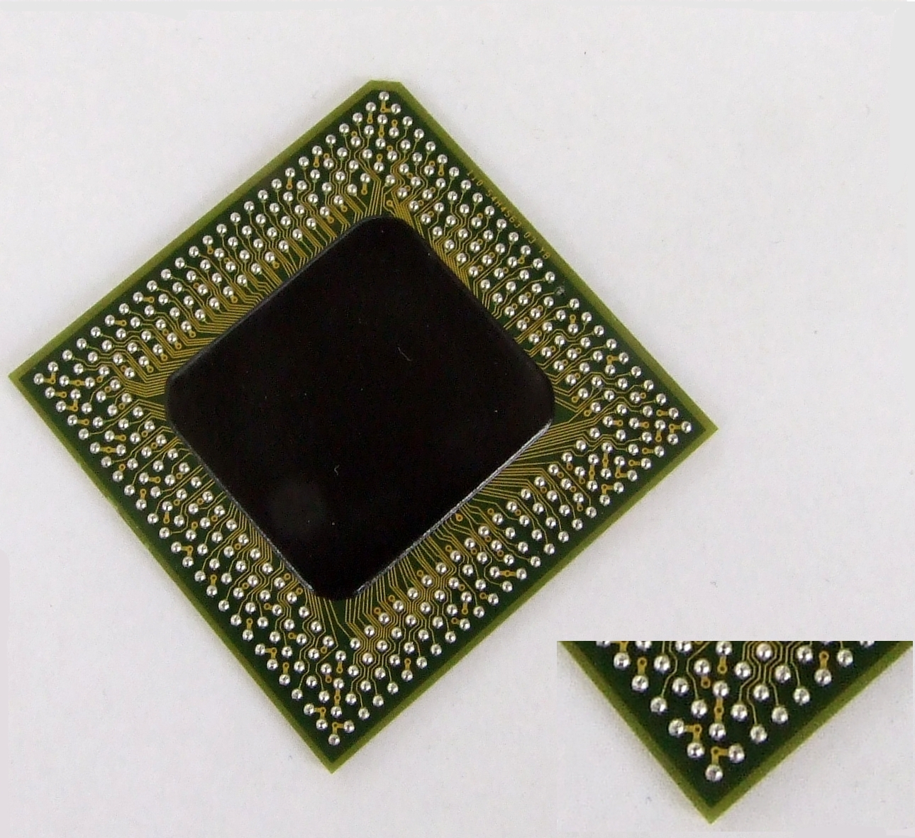 Cyrix MediaGX (bottom view)